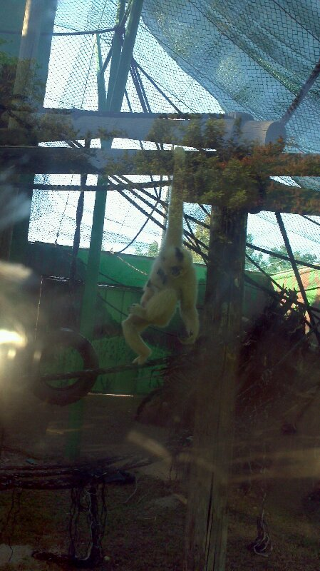 Wildlife and Plants of Israel